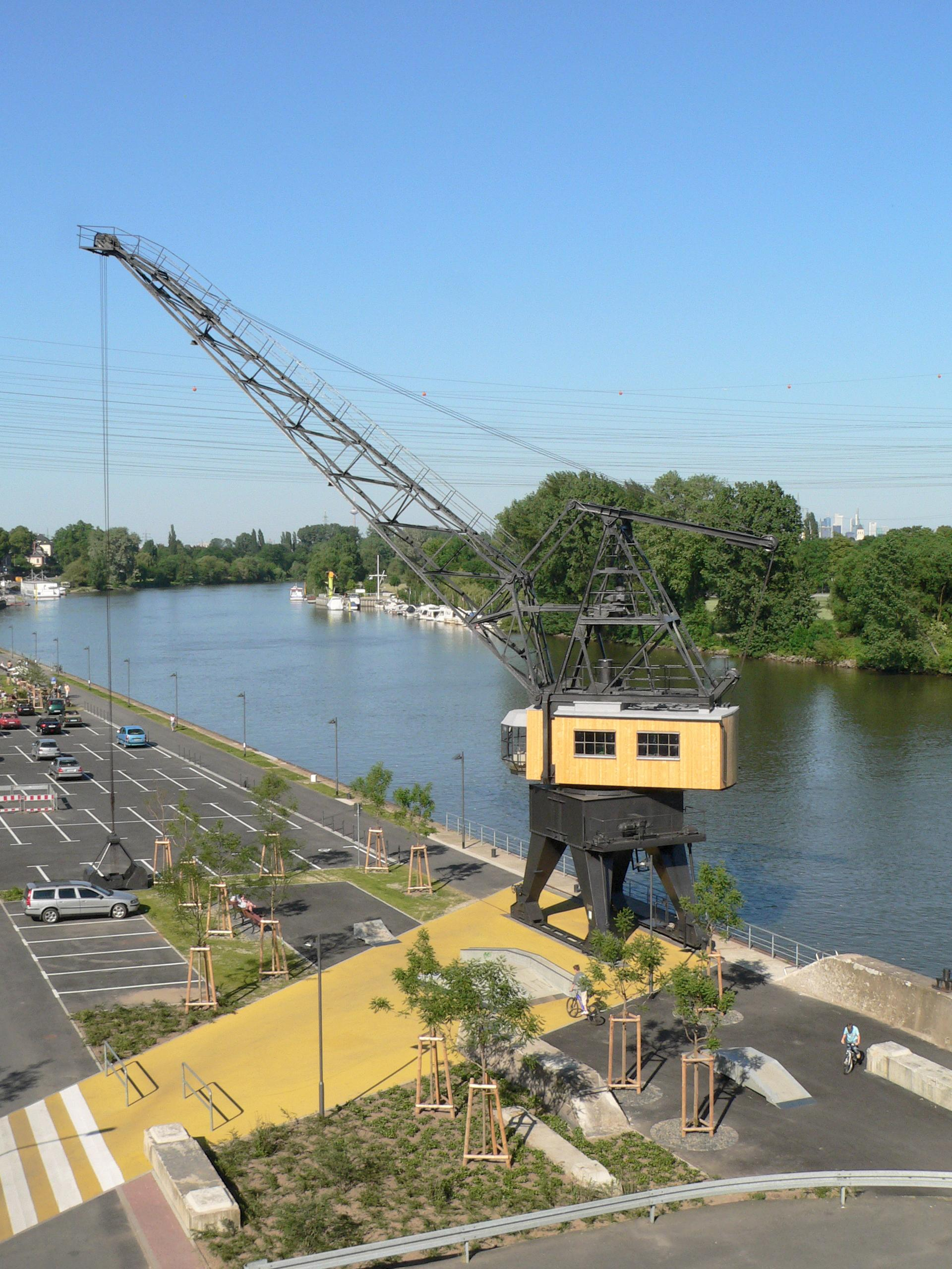 listed coal crane of the former Höchst power station